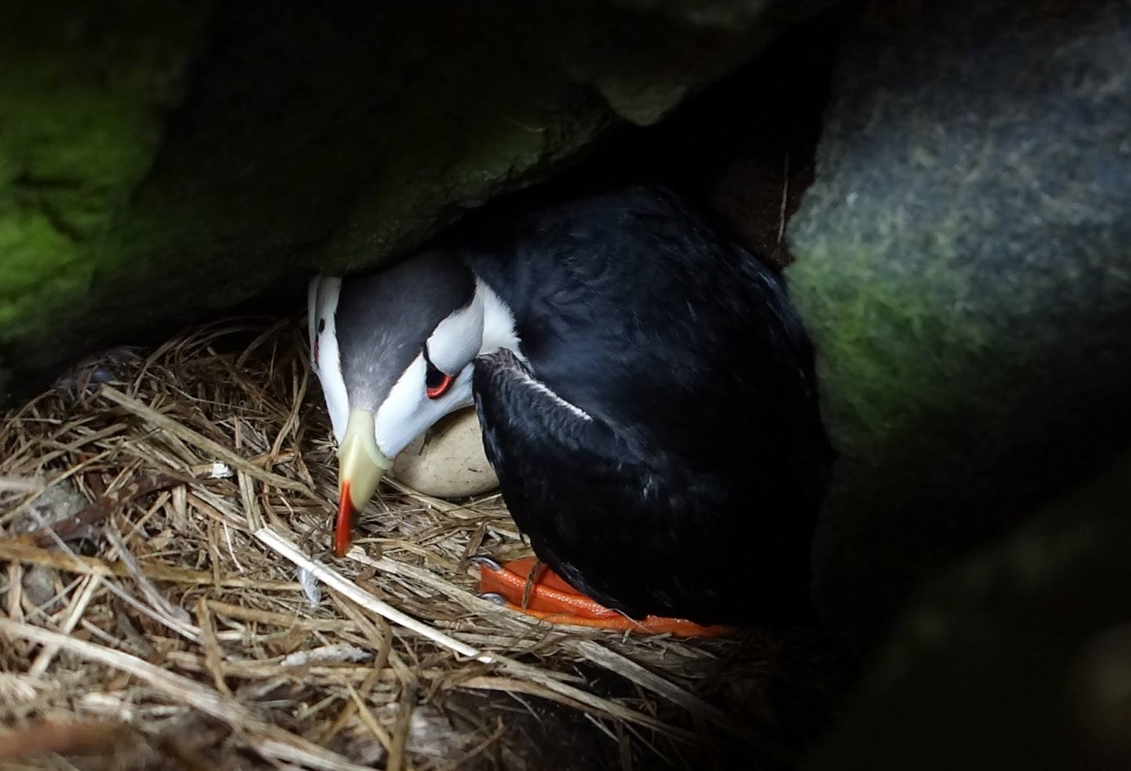 Horned Puffin with egg on Aiktak Island by Mikaela Howie/USFWS.